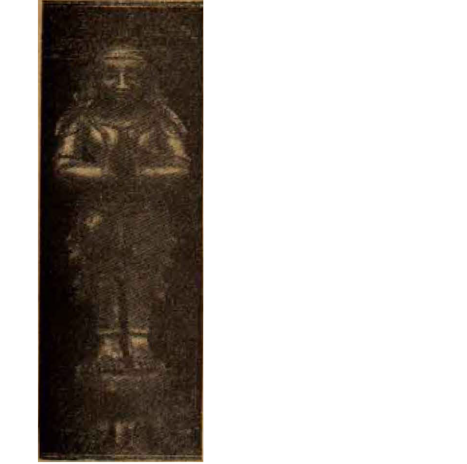 ఆదిభర్త నాయనారు